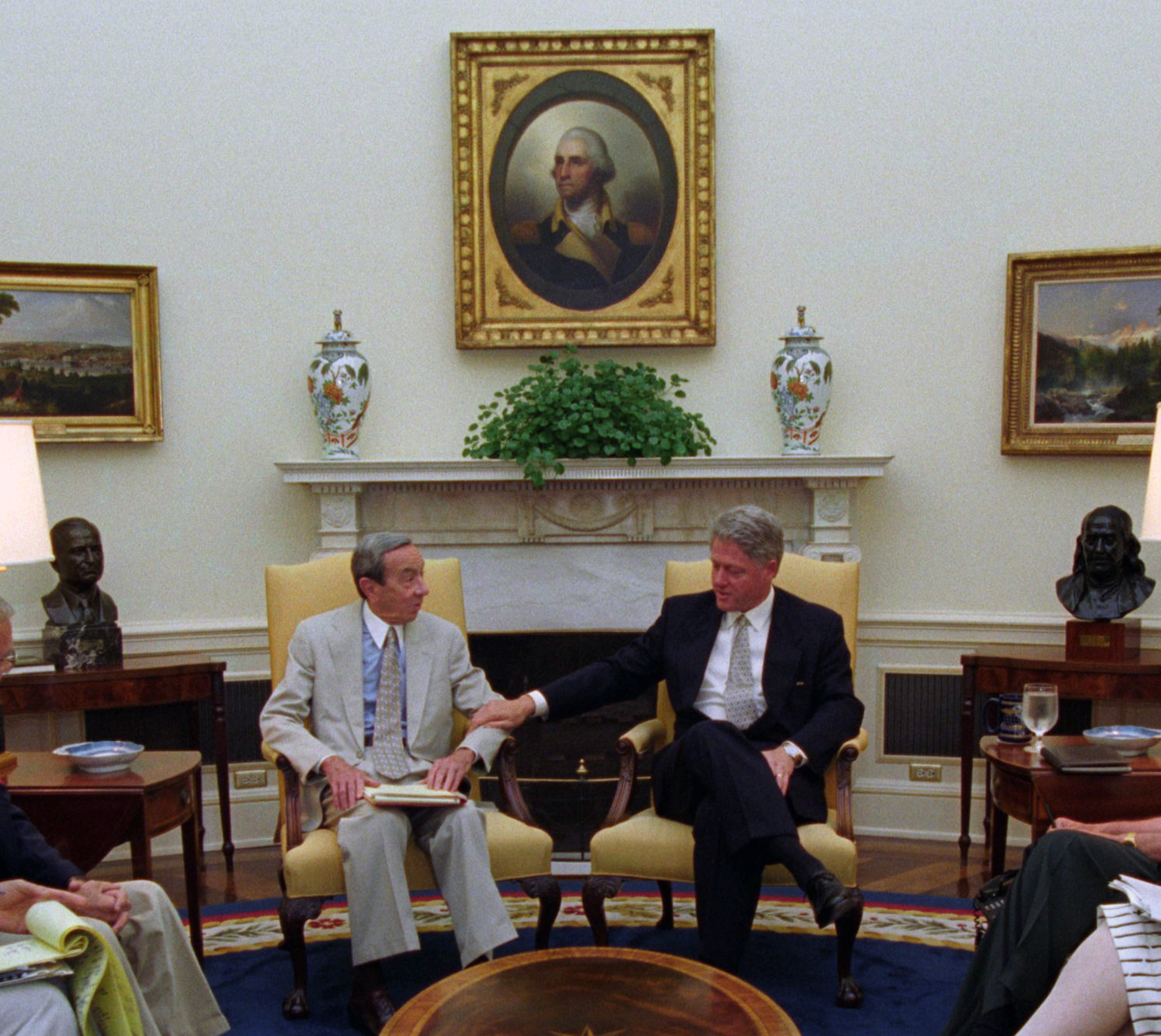 July 22, 1995 (Credit: William J. Clinton Presidential Library) Hosted by the Clinton Library and the Clinton Foundation, the document release was spearheaded by CIA’s Historical Review Program (HRP), which identifies, collects and produces historically relevant collections of declassified materials. The Bosnia collection—the youngest ever released in HRP’s 20-year existence—is available online at A video recording of the symposium is available at